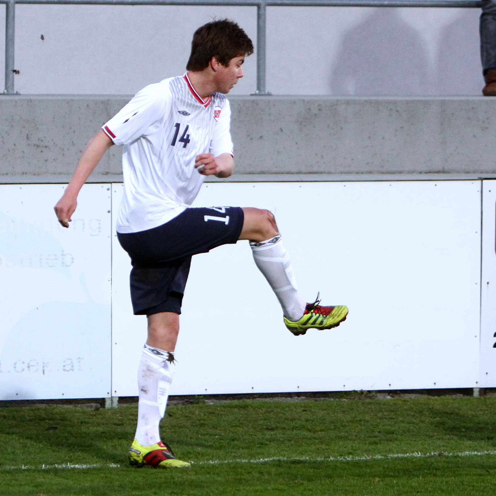 Torgeir Børven (Odd Grenland) in the Norway national under-21 football team, 2011-03-29